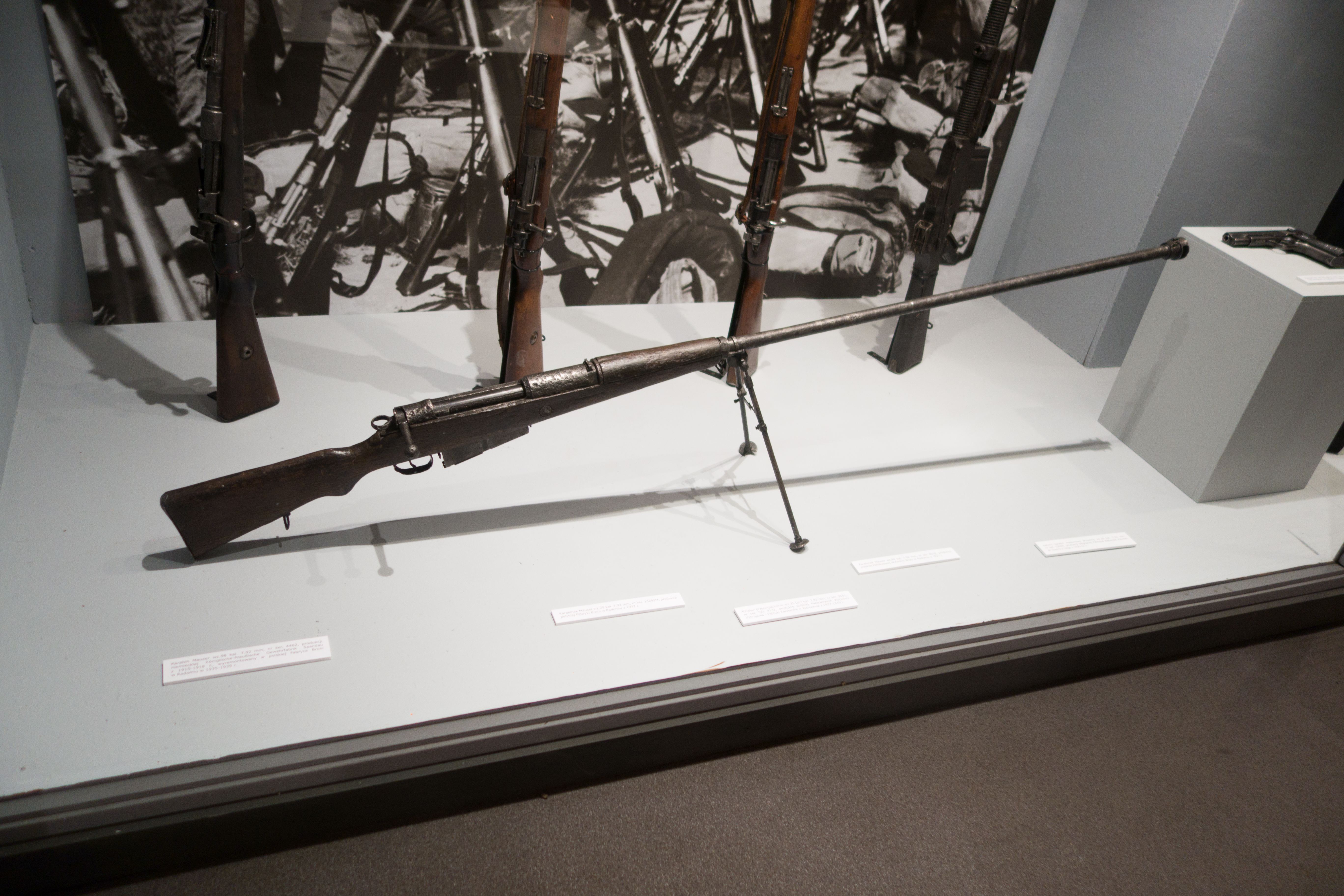 Wz. 35 anti-tank rifle (Poland 2012)